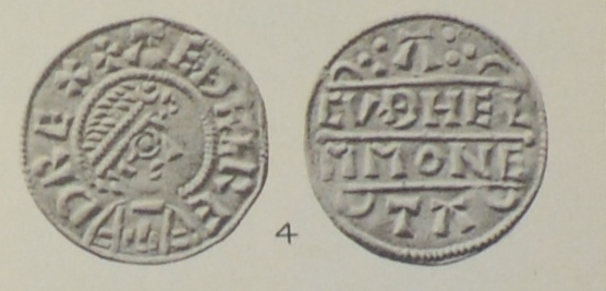 Coin of King Æthelred I of Wessex